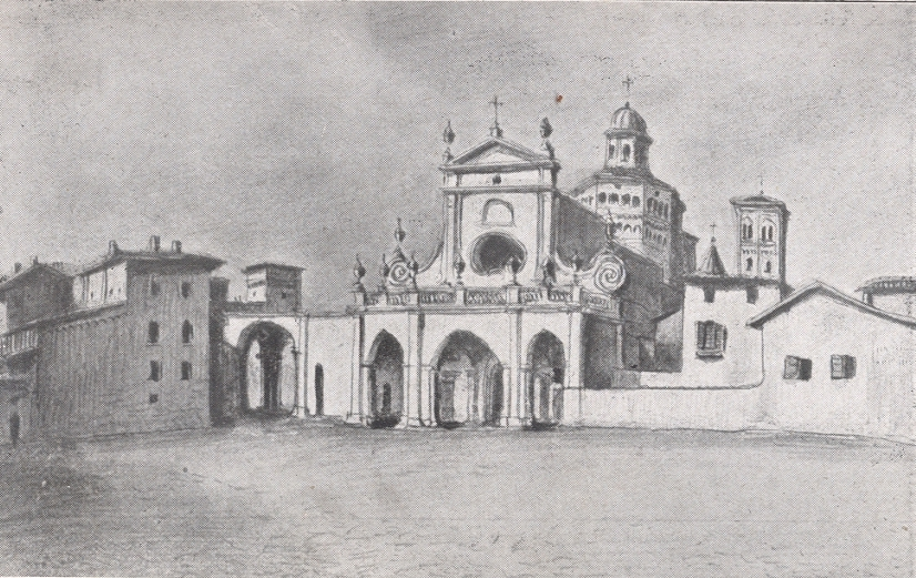 drawing of the cathedral of Ivrea with the Renaissance facade (before 1850)